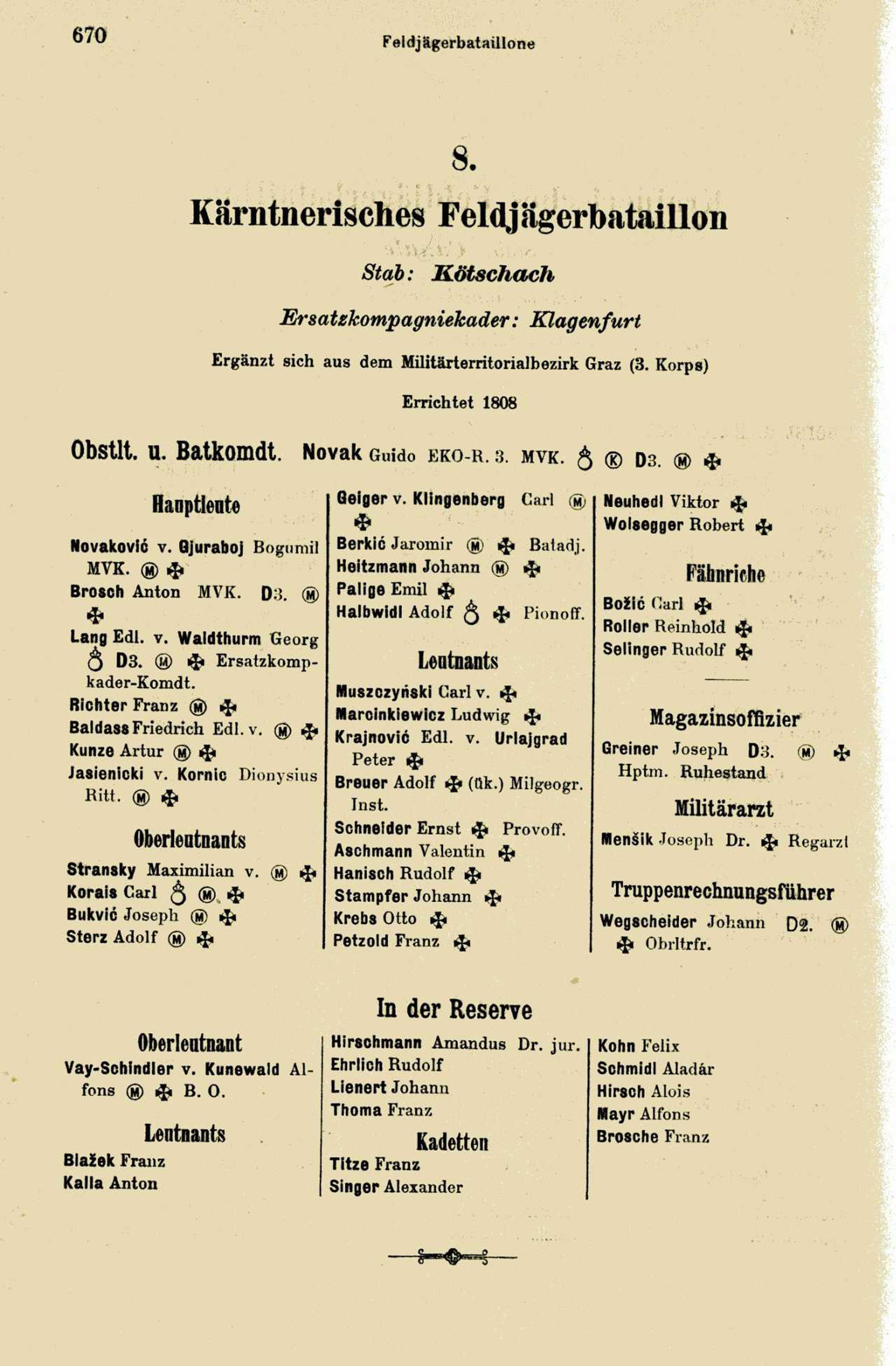 Officers list of 1909 of the Austria-Hungarian Rifles Battalion No. 8